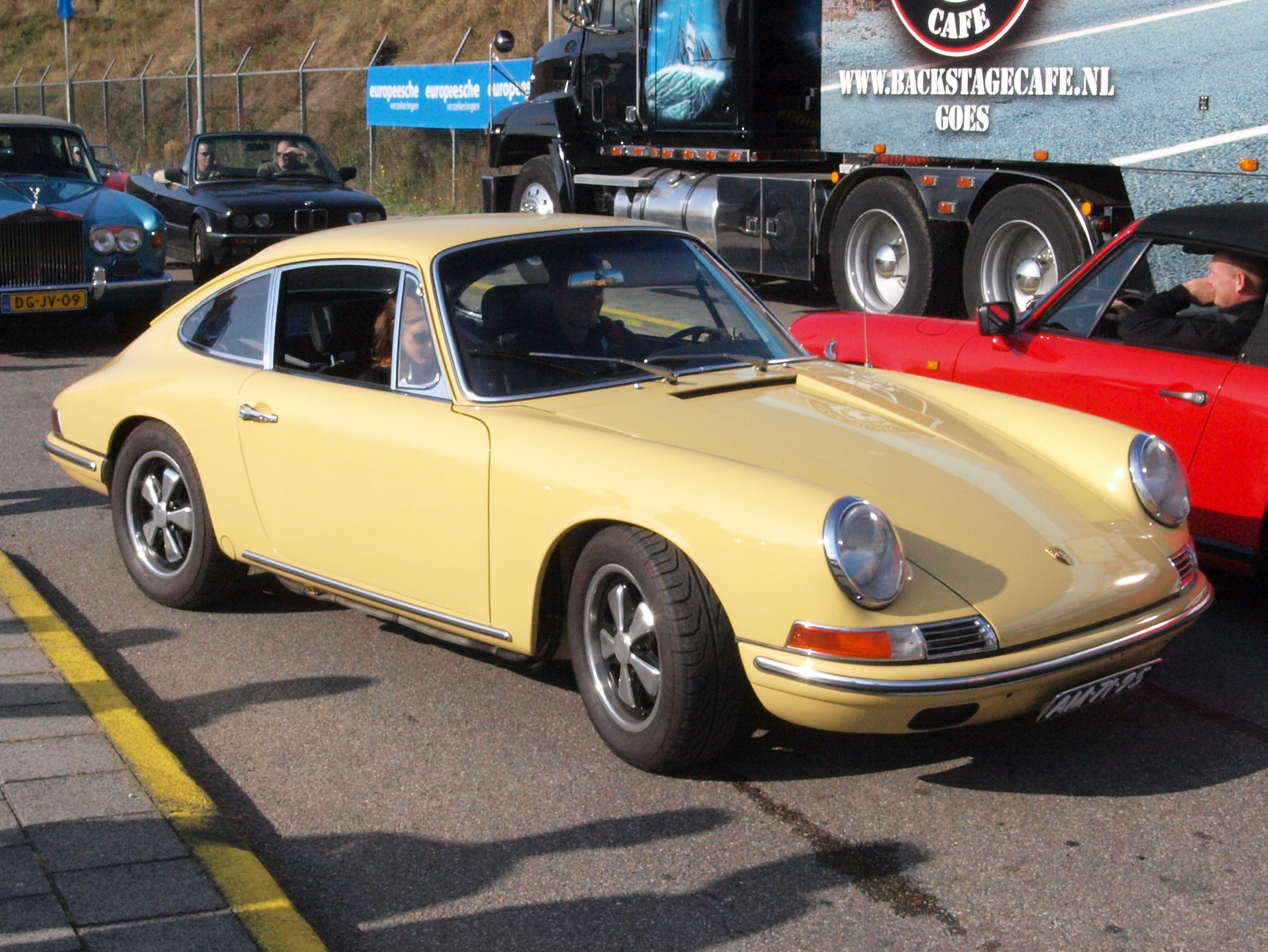 Photographed at the Nationaal Oldtimer Festival Zandvoort 2009, The Netherlands. OLYMPUS DIGITAL CAMERA